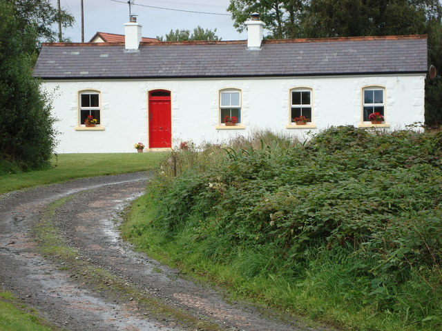 Inver: Old Railway Station Beautifully maintained and lived in.